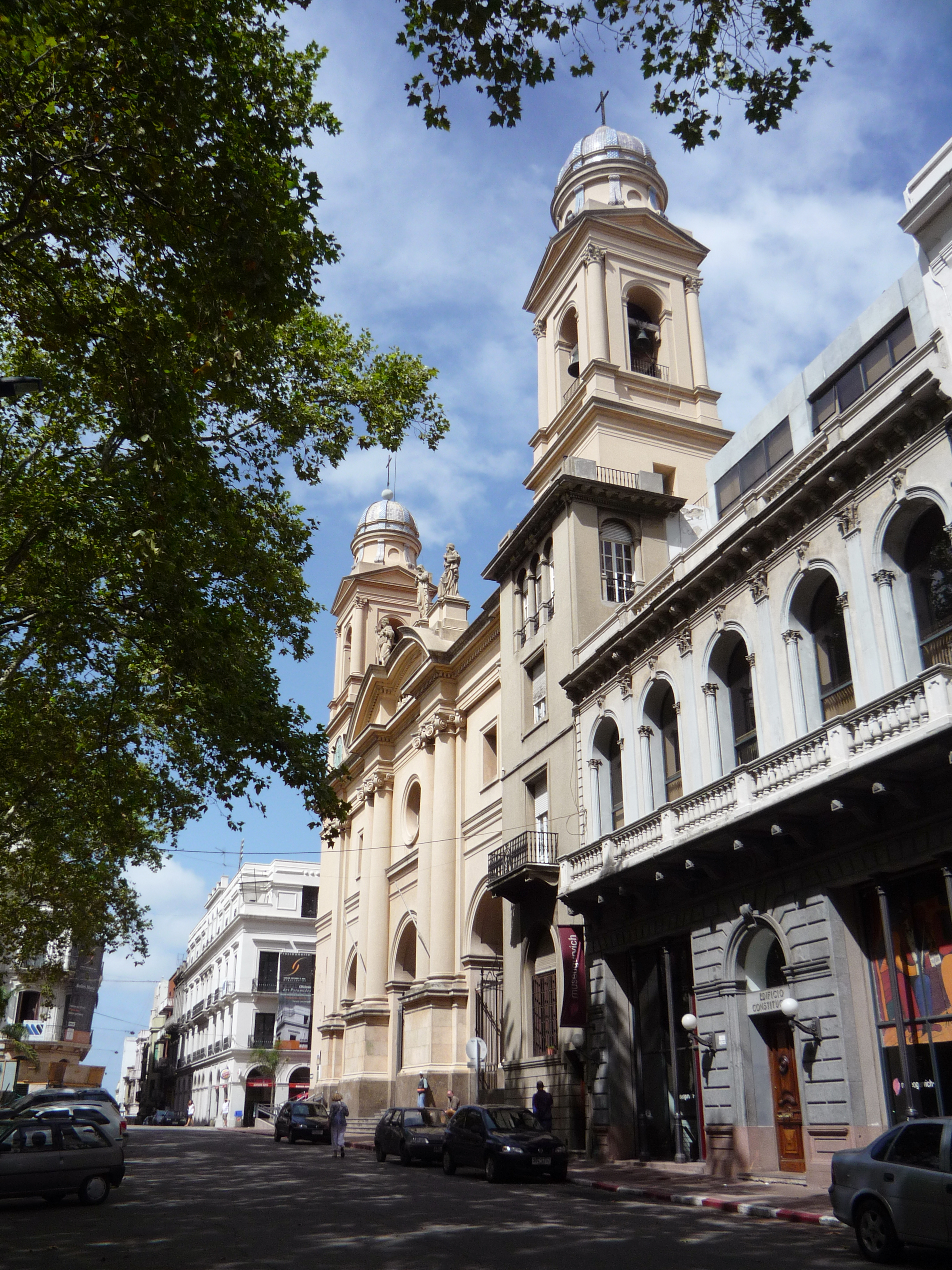 Cathedral of Montevideo, Uruguay